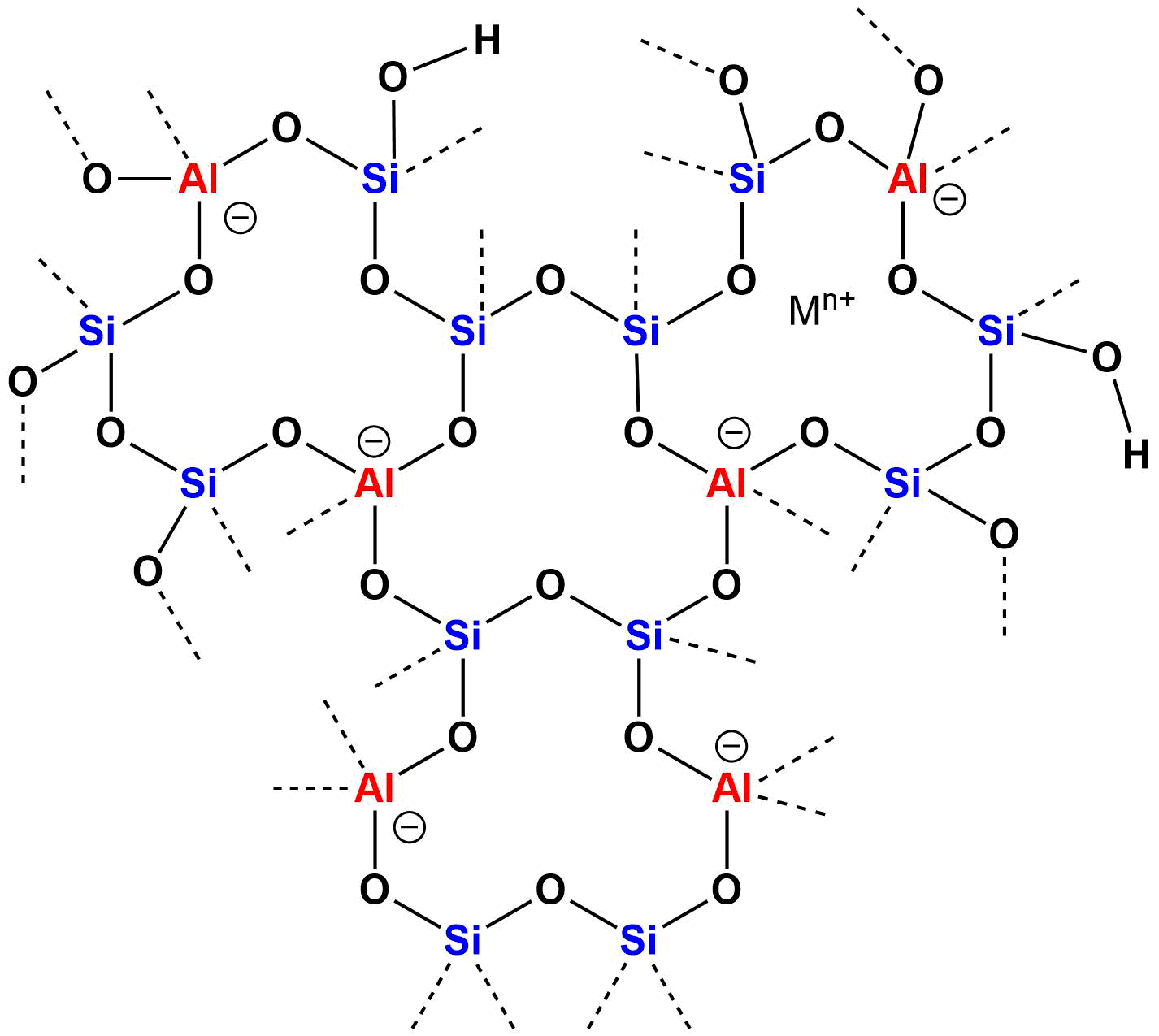 2-D representation of a zeolite lattice